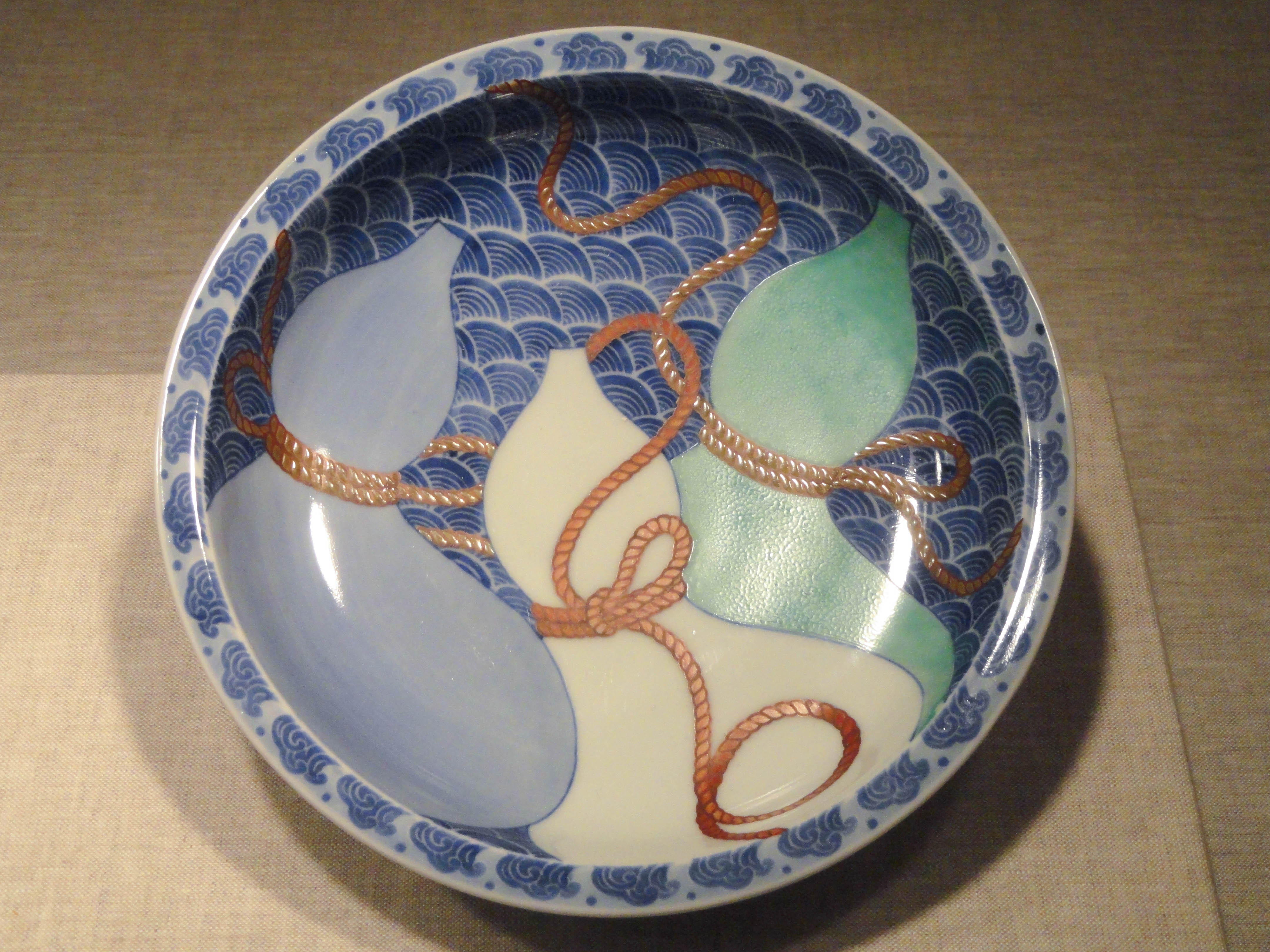 Exhibit in the Art Institute of Chicago, Chicago, Illinois, USA. This artwork is in the public domain because the artist died more than 70 years ago.